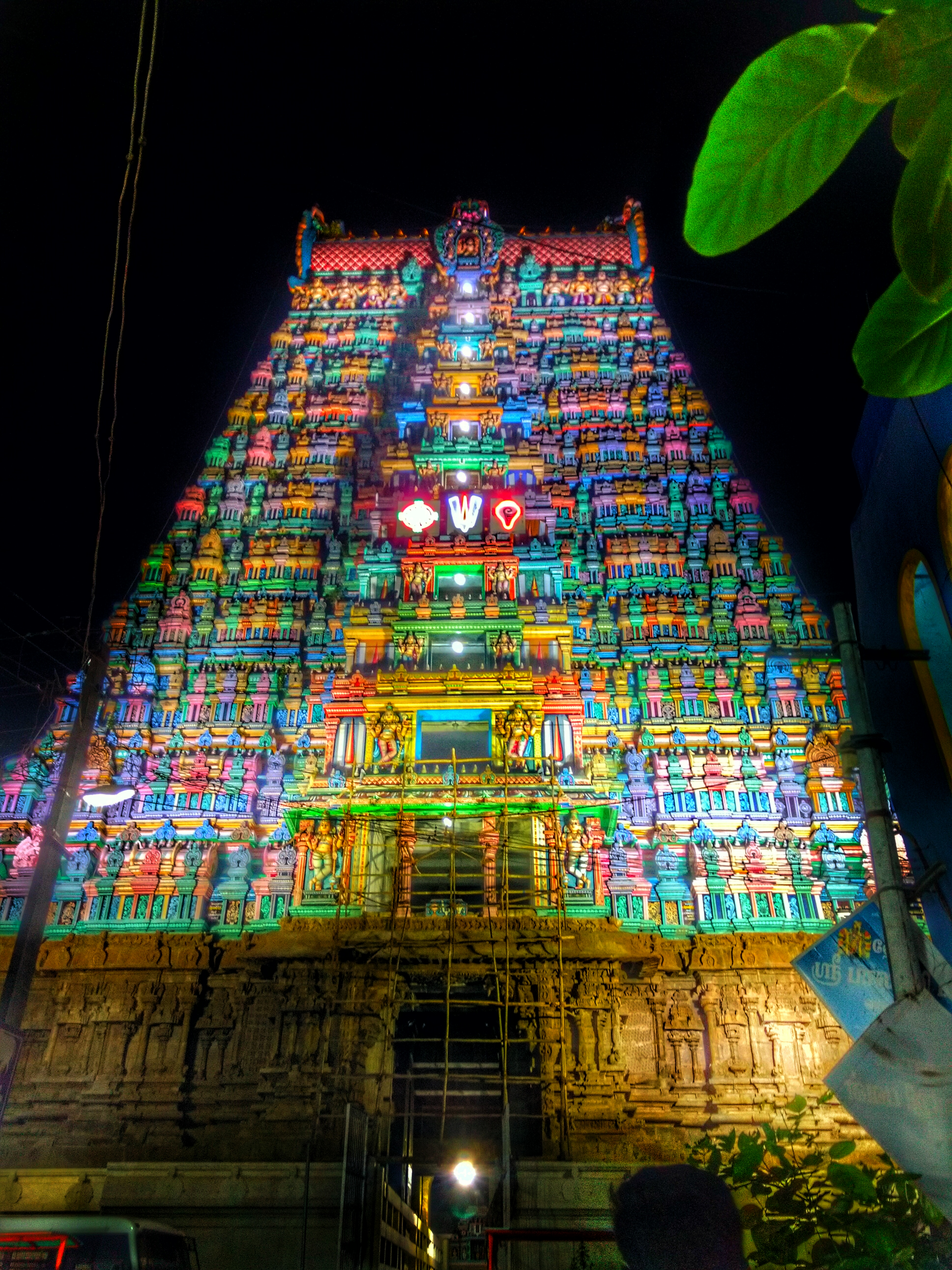 Srirangam temple light effect